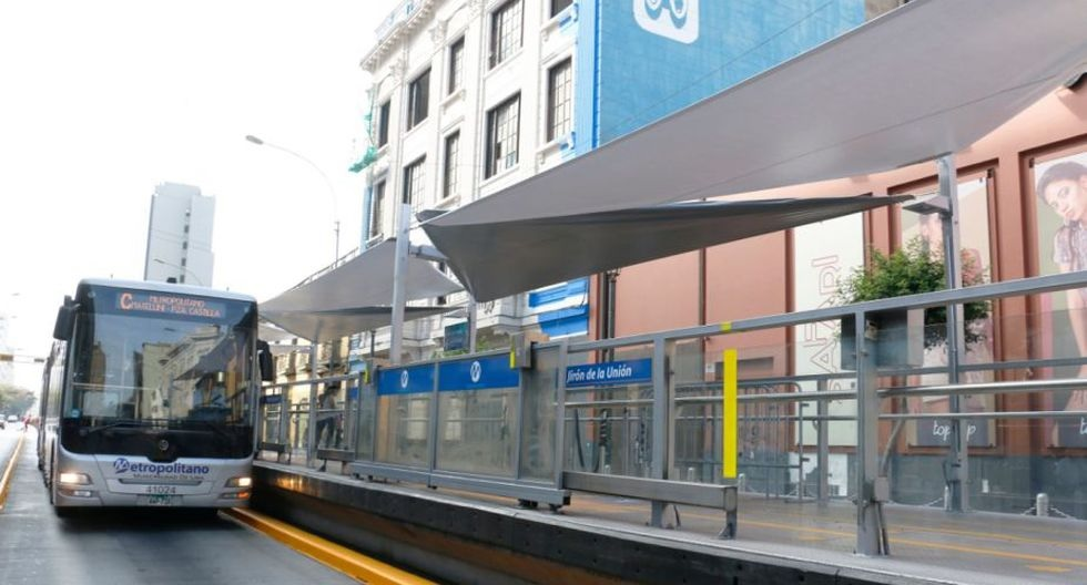 Lima metropolitano station.